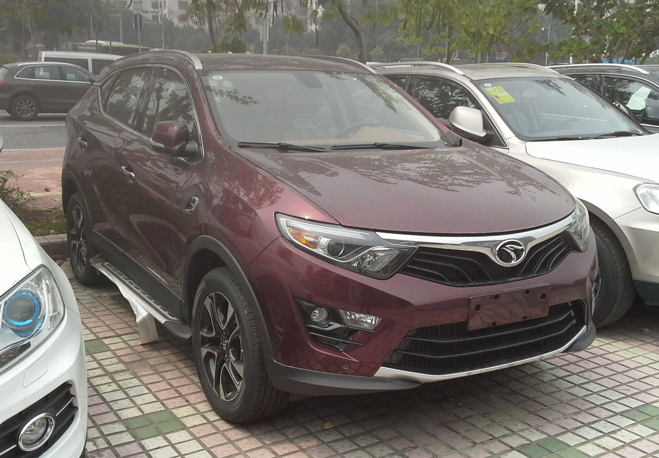 Soueast DX7 Bolang photographed in Guangzhou, Guangdong province, China.